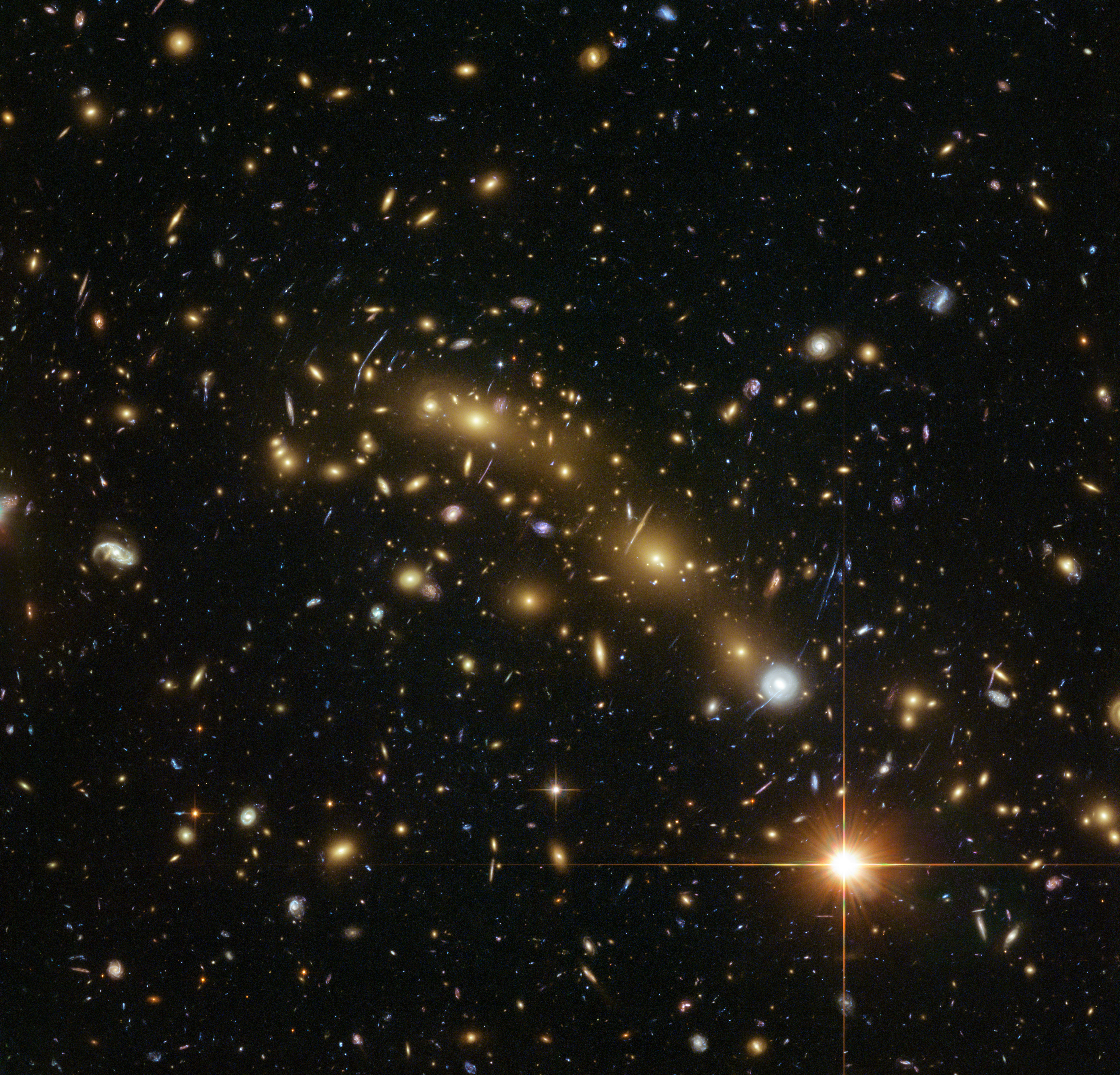 This image from the NASA/ESA Hubble Space Telescope shows the galaxy cluster MCS J0416.1–2403. This is one of six being studied by the Hubble Frontier Fields programme. This programme seeks to analyse the mass distribution in these huge clusters and to use the gravitational lensing effect of these clusters, to peer even deeper into the distant Universe. A team of researchers used almost 200 images of distant galaxies, whose light has been bent and magnified by this huge cluster, combined with the depth of Hubble data to measure the total mass of this cluster more precisely than ever before.